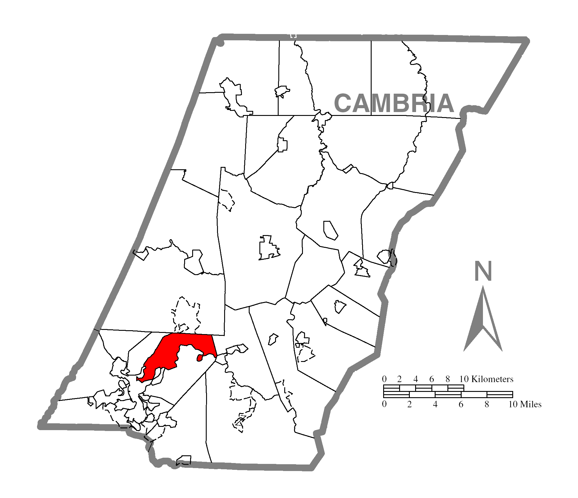 A map of Cambria County showing East Taylor Township, Pennsylvania (alternate) highlighted on the map.